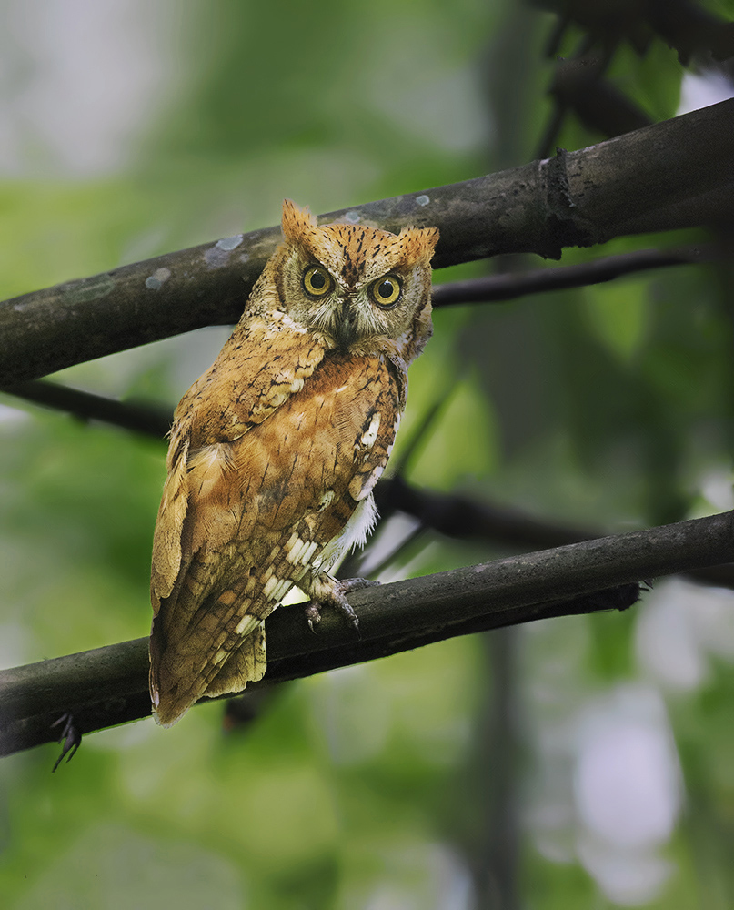 Oriental Scops Owl (Rufous morf)